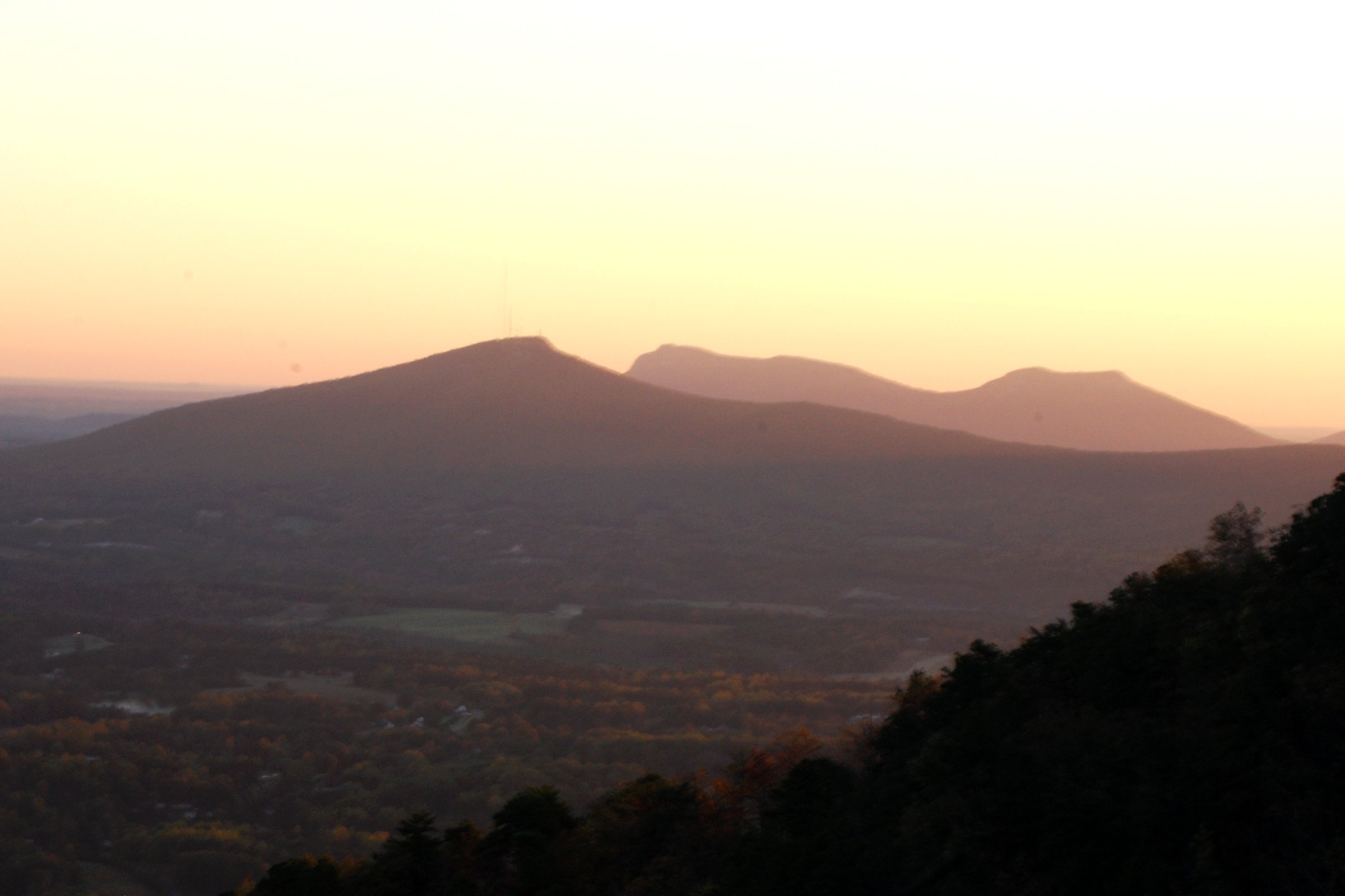 Sauratown Mountain & Hanging Rock, viewed from Pilot Mountain State Park, NC